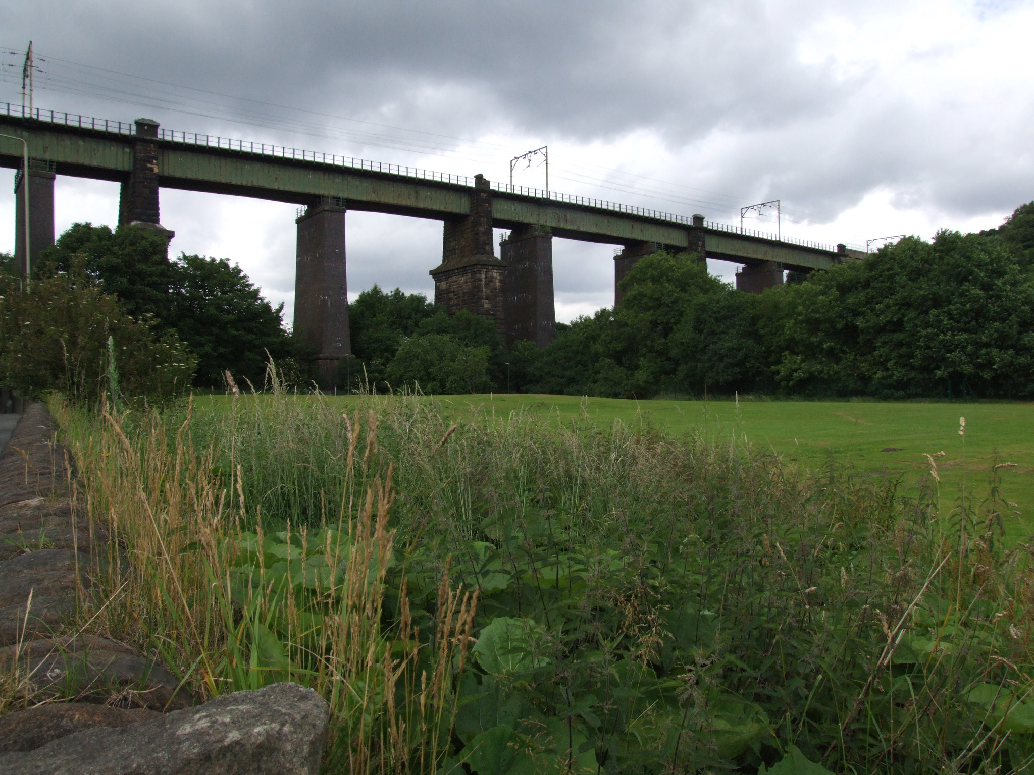 Dinting is near Glossop, Derbyshire. It is known for the railway junction and viaduct, and Dinting Vale Printworks. Dinting Viaduct from A57 by the church.